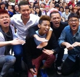 Director Jack Neo with the rest of the main cast of Ah Boys to Men (February 2013)